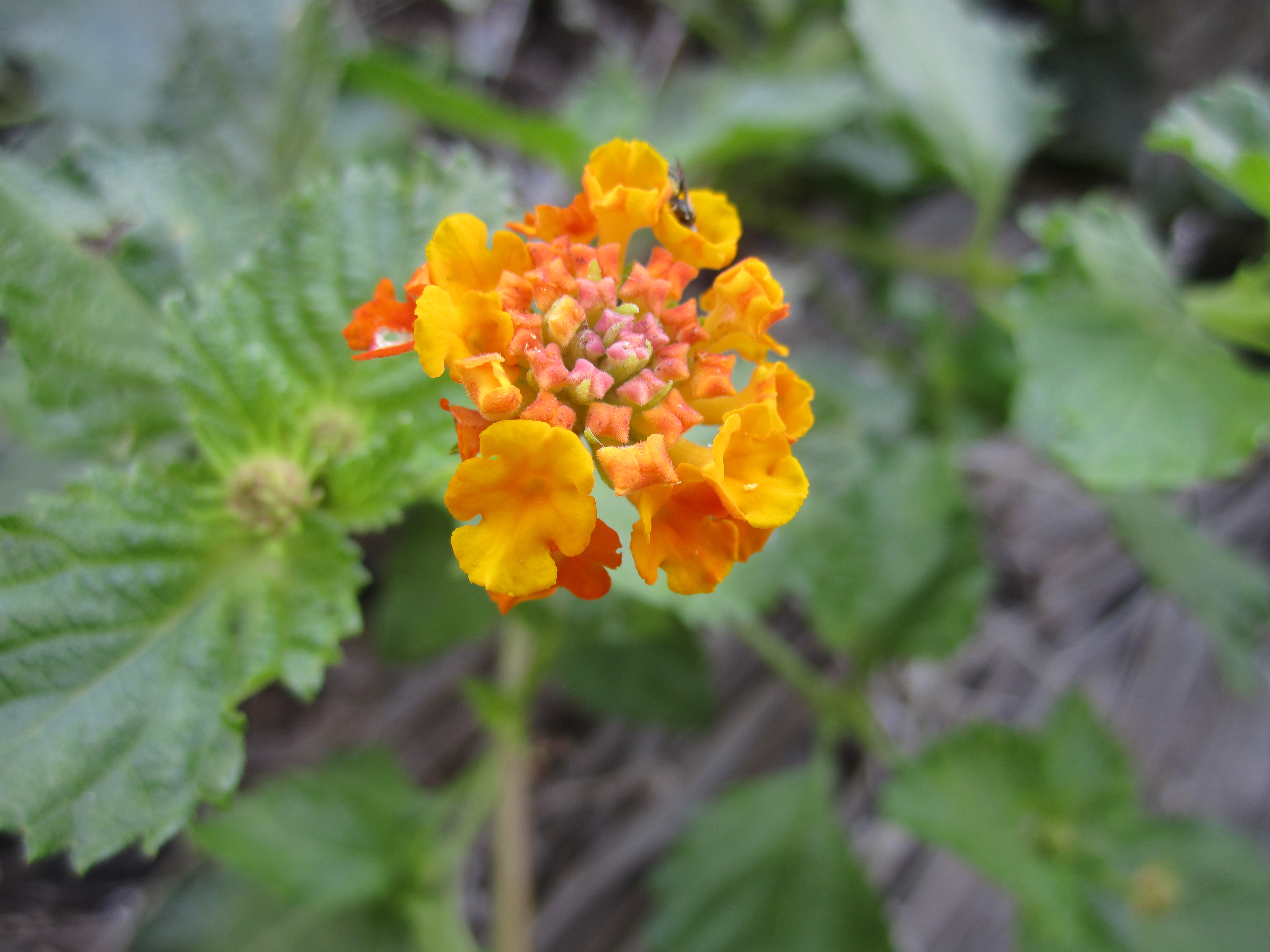 Inflorescence of a cultivated Lantana horrida specimen.